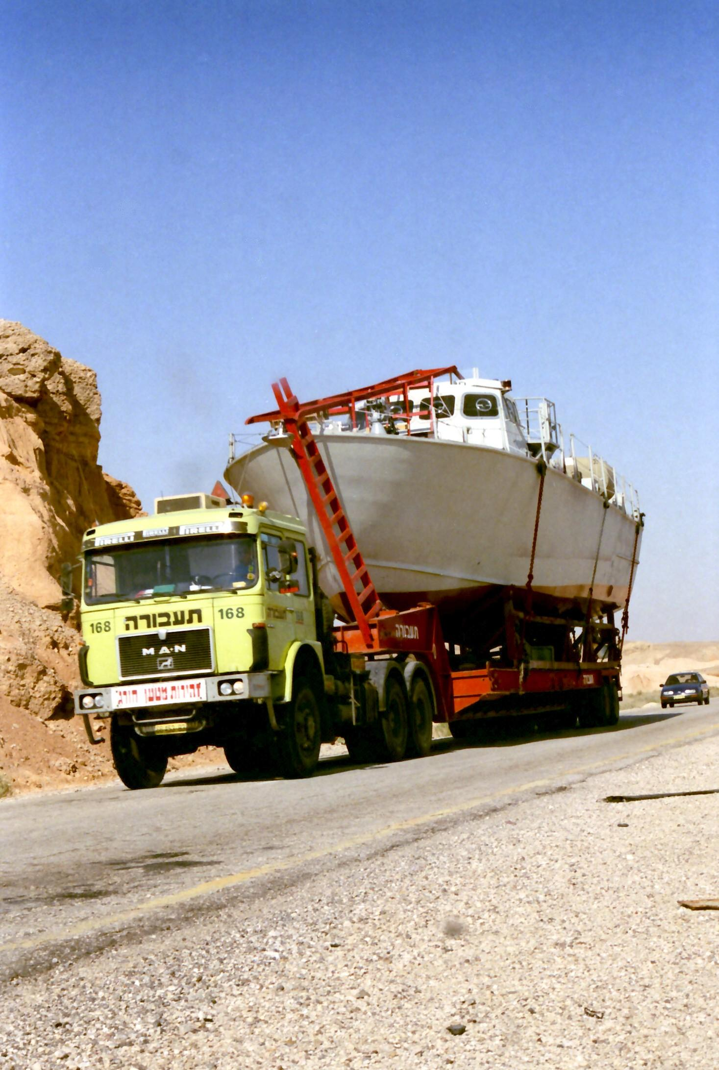 MAN Truck with patrol boat in the Negev on its way to Eilat.